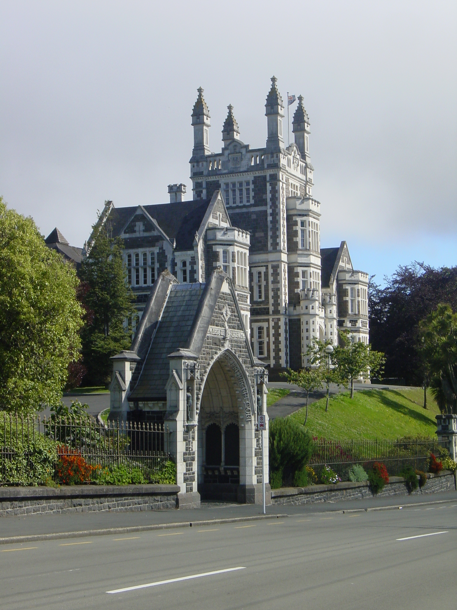 Otago Boys School in Dunedin, New Zealand